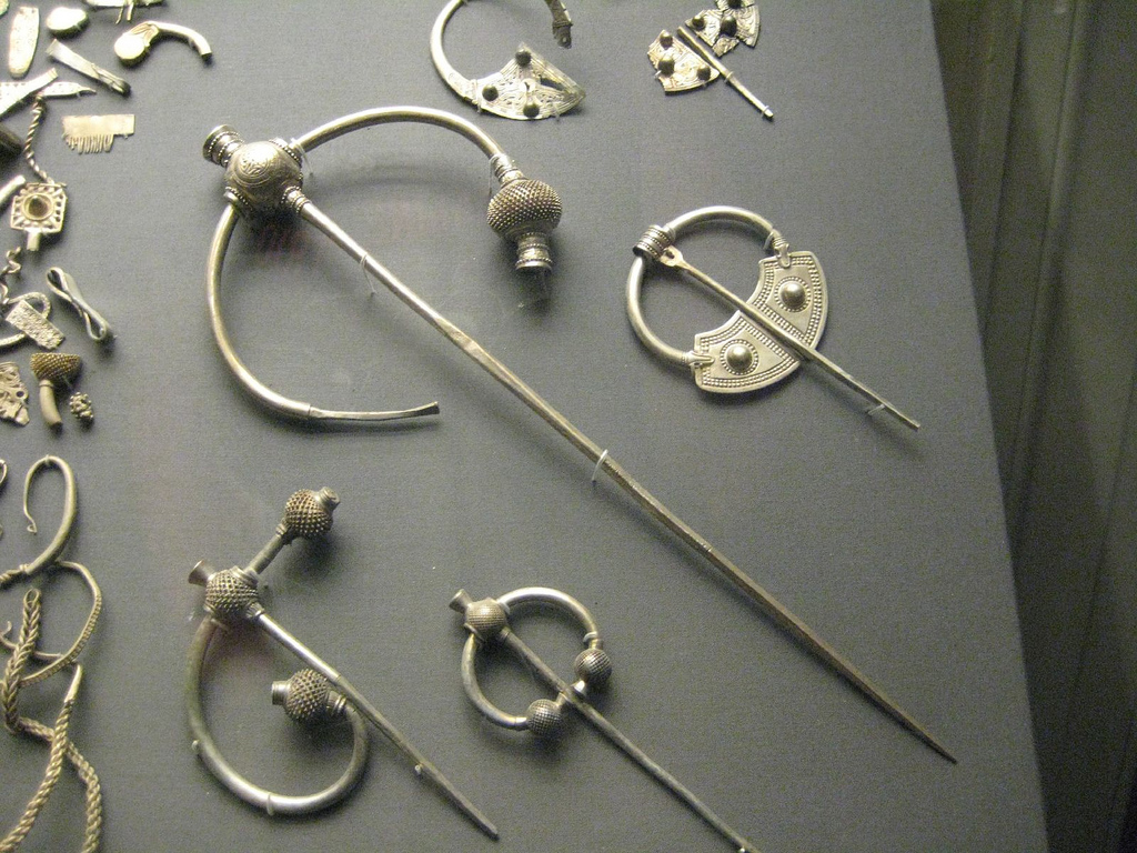 Early 10th century AD From Fluskew Pike, Newbiggin, near Penrith, Cubmria, in England. These are of the Irish Viking type.